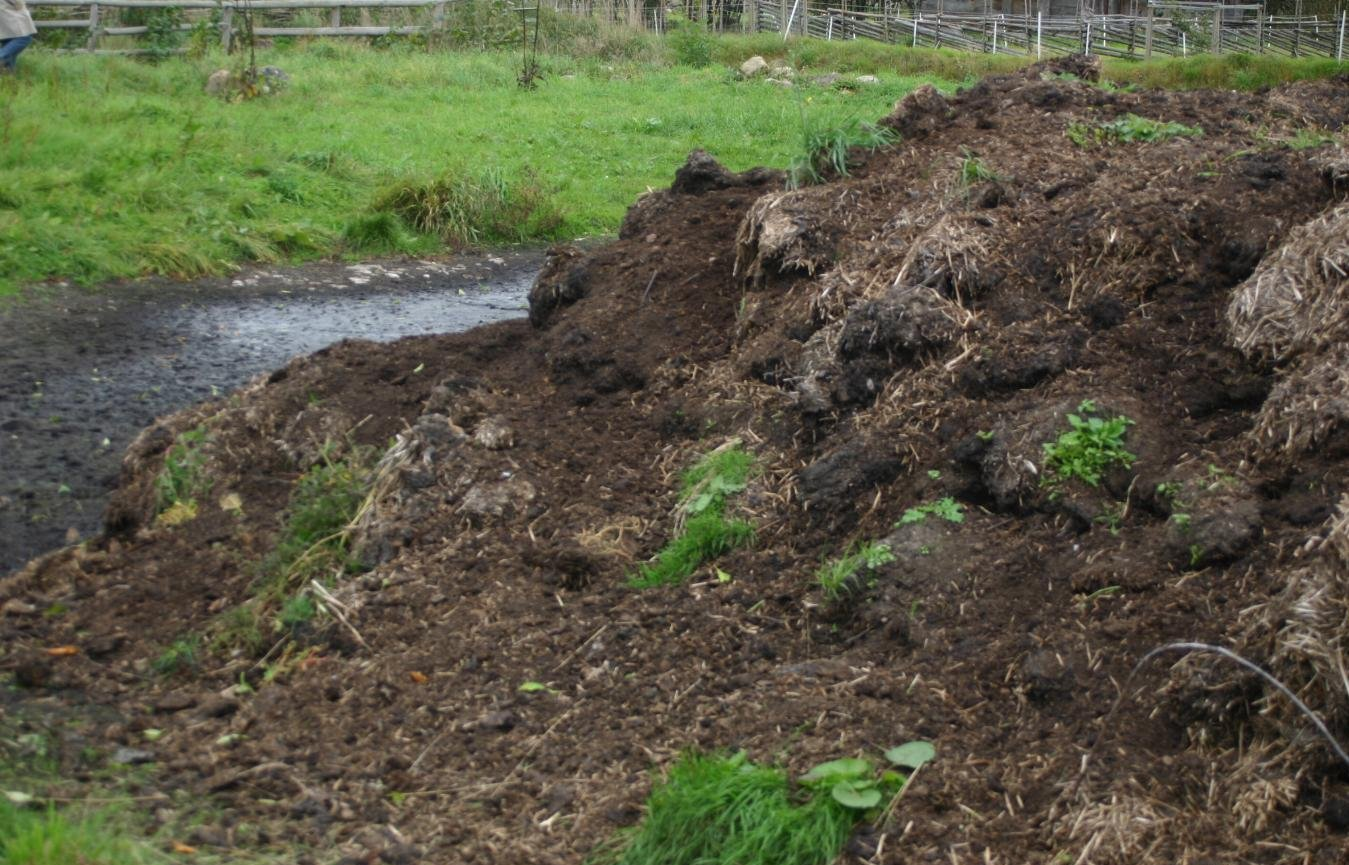 Dung heap, somewhat decomposed, taken at Frederiksdal, Scania.